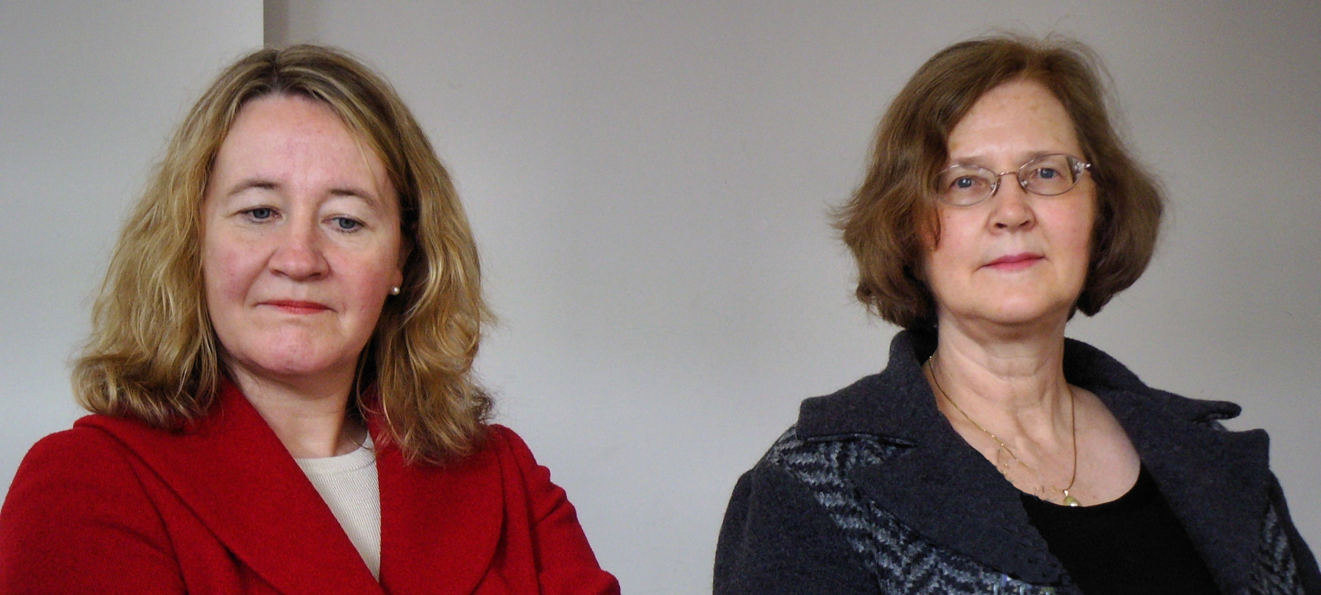 Carol Greider (in red) and Elizabeth Blackburn. Carol Greider is a molecular biologist who discovered the enzyme telomerase in 1984 while working with Elizabeth Blackburn. Elizabeth (Liz) Helen Blackburn FRS (born November 26, 1948 in Hobart, Tasmania) is an Australian-born U.S. biologist at the University of California, San Francisco (UCSF), who studies the telomere.